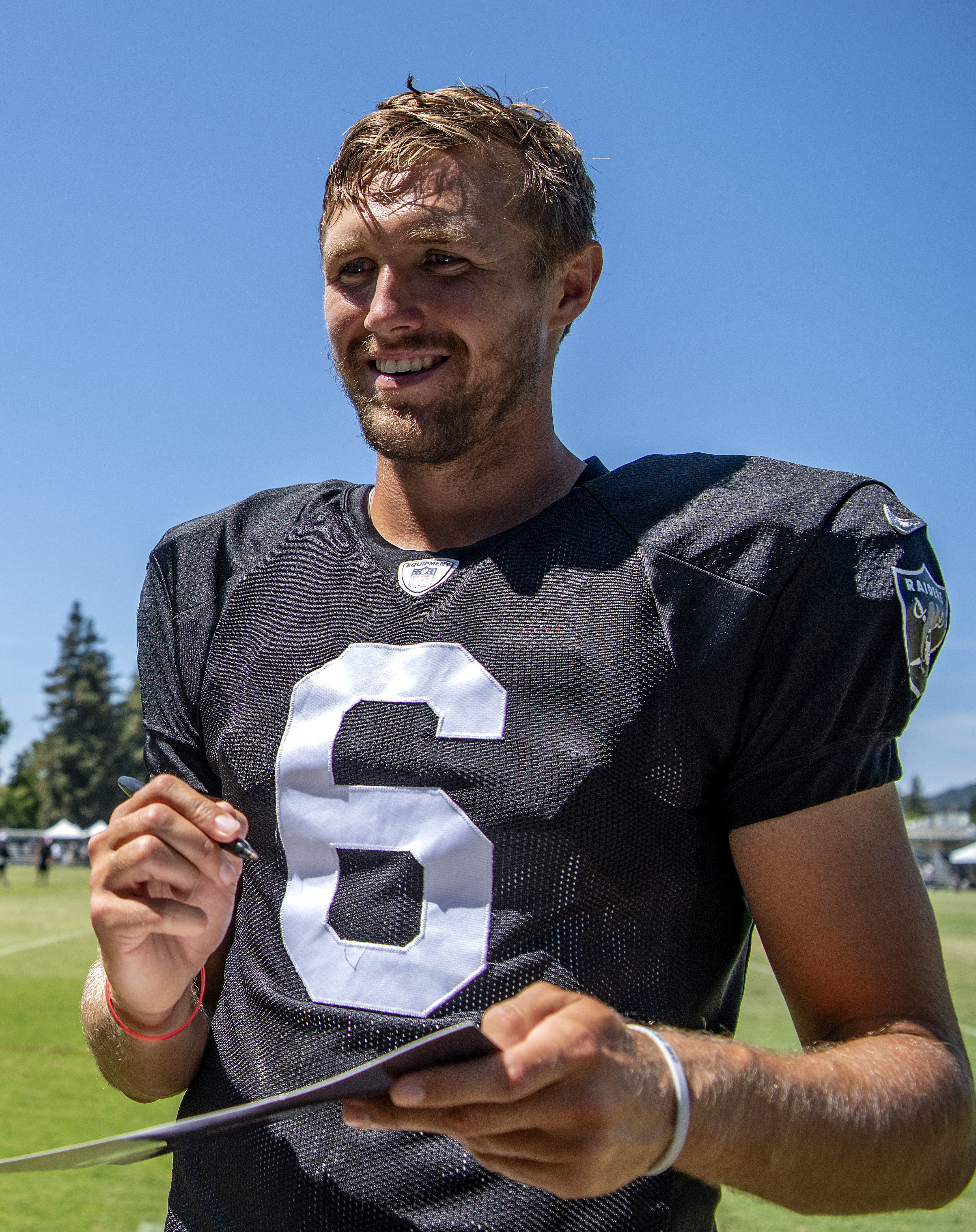 A. J. Cole signing an autograph in 2019